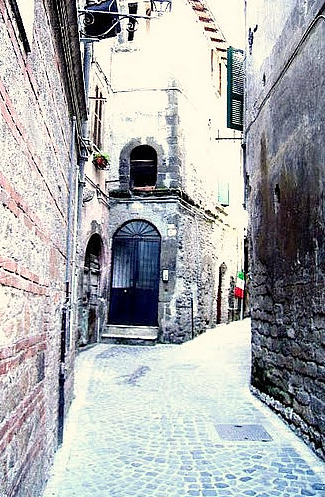 00033 Cave RM, Italy